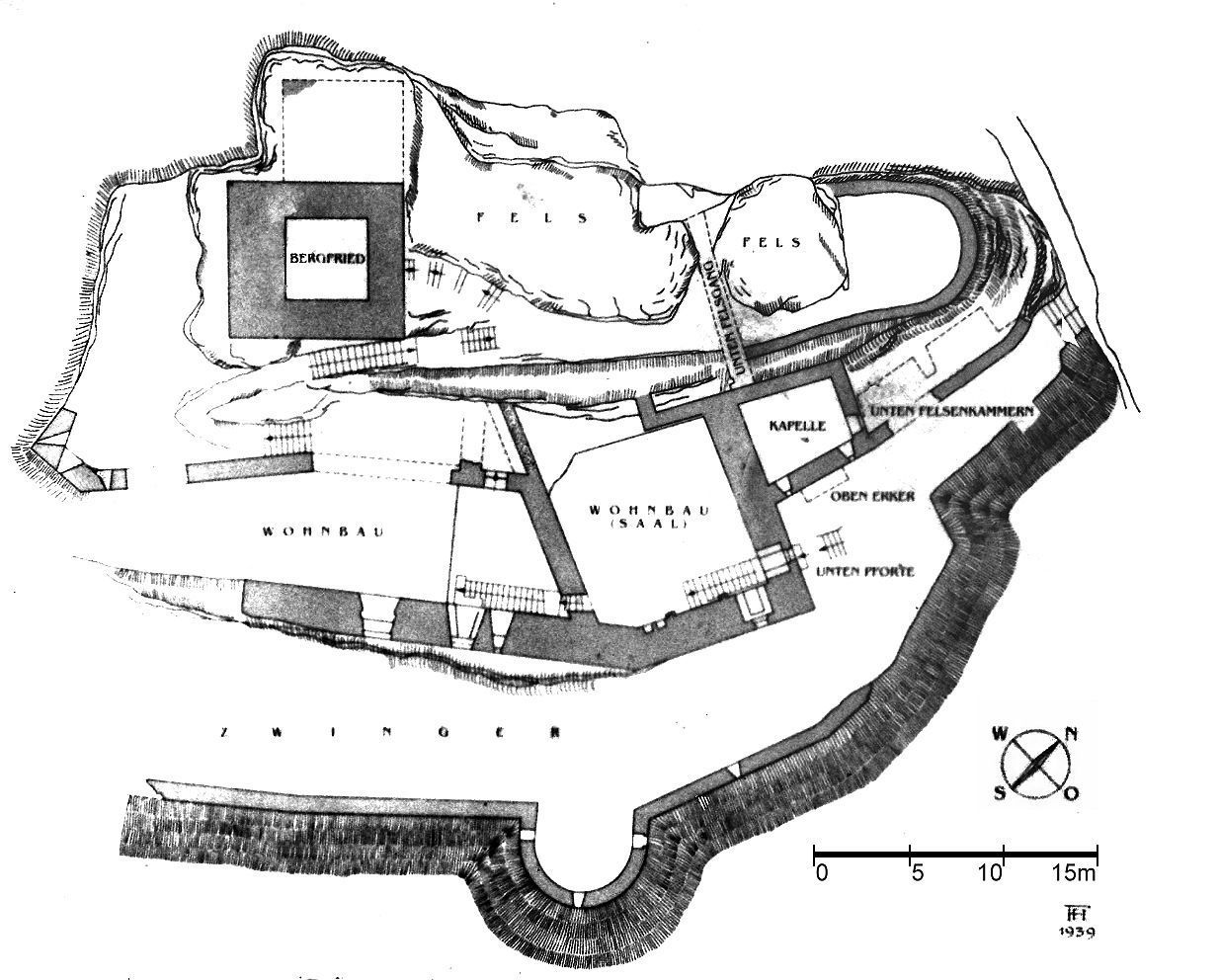 Castle Frankenstein, ground plane. Photograph of a public information board (photographer: Emil). Image processed by Emil, 2005.